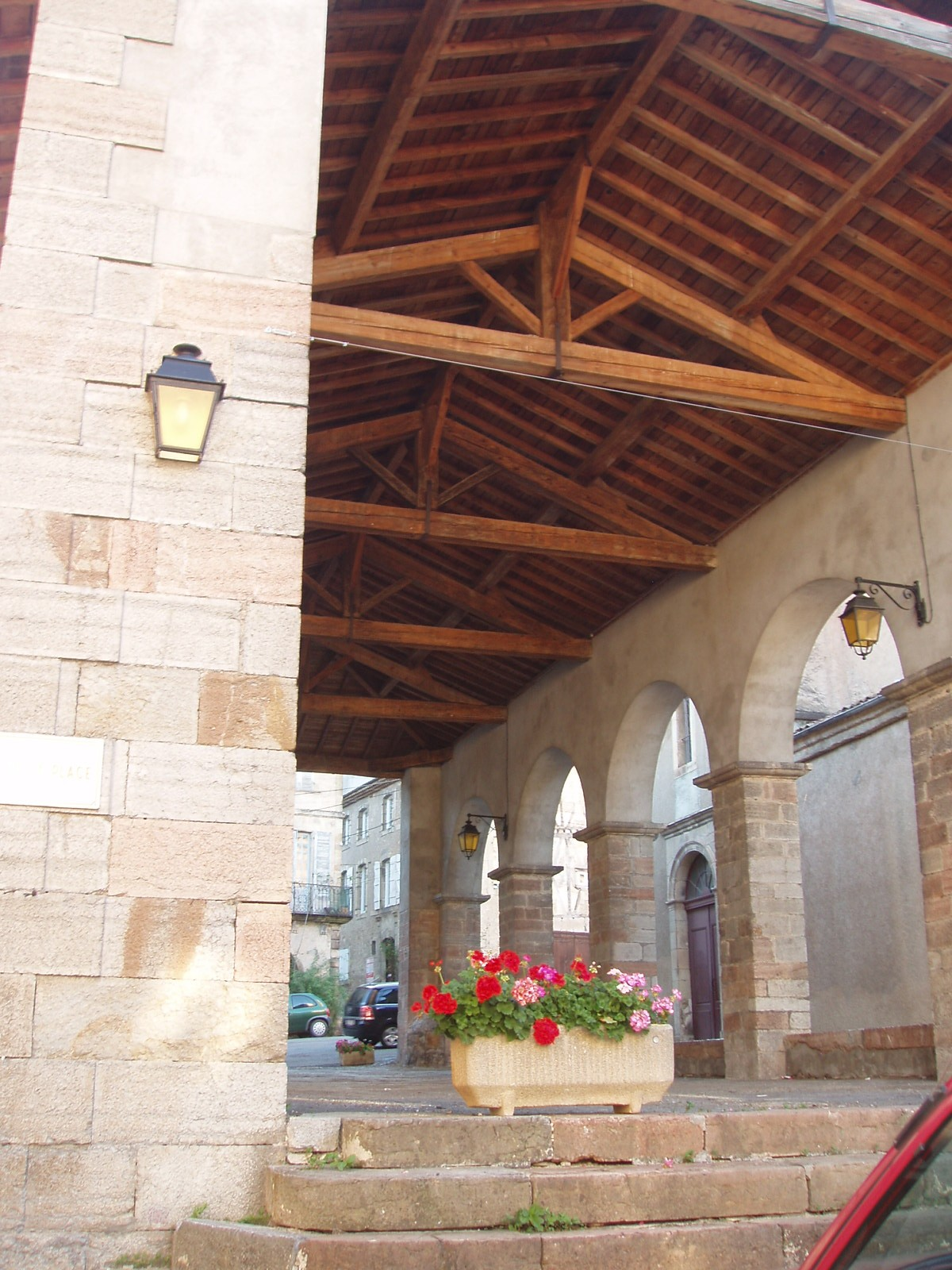 La Bastide-de-Sérou (Ariège, France) : The old market hall.